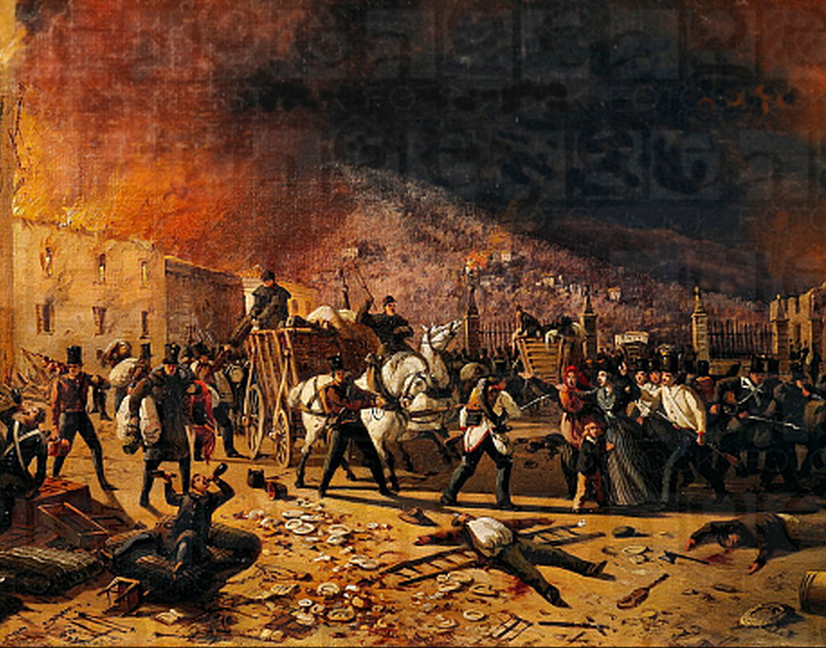 The Ten Days of Brescia, the defense of Port Torrelunga in 1849, by Faustino Joli (1814-1876), oil on canvas, 32x41 cm. Italy, 19th century. Brescia, Museo Civico Del Risorgimento (Historical Museum).